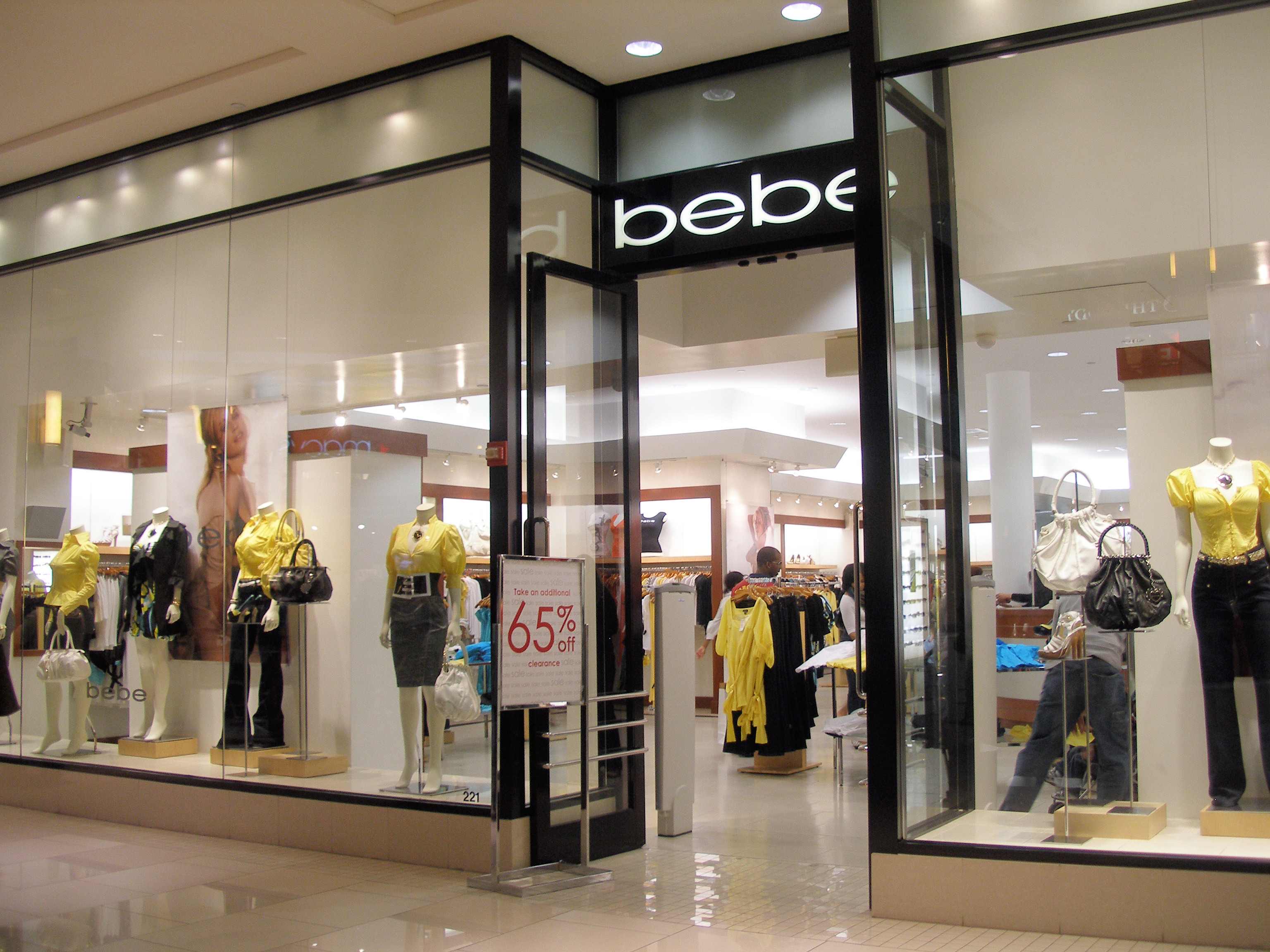 A typical store operated by bebe stores, seen in the Aventura Mall in Aventura.